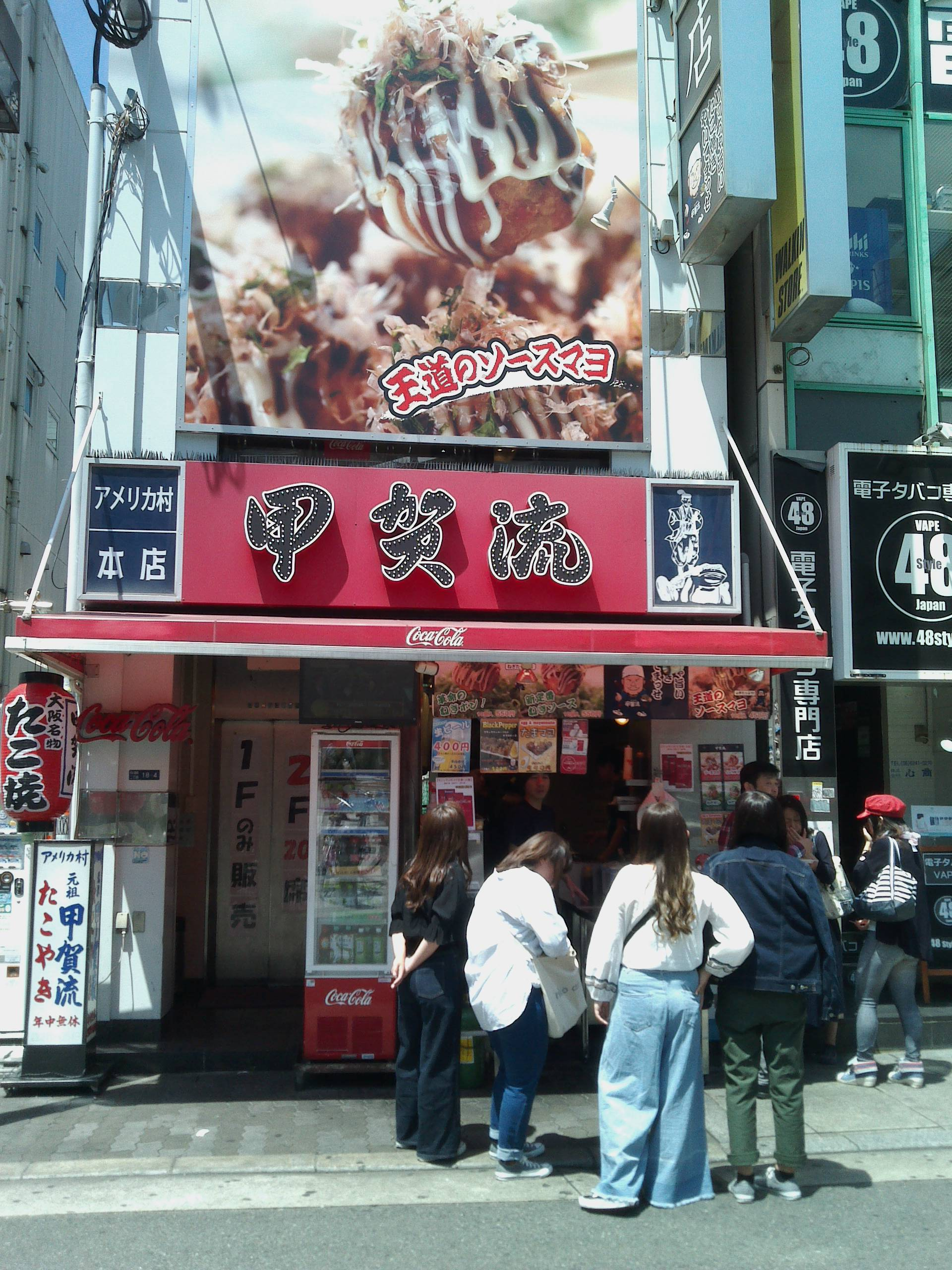 'KOUGARYU Takoyaki' Main Store, Amerikamura ( American Town ), Osaka, JAPAN